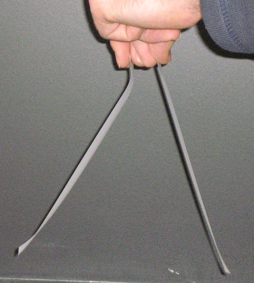 Demonstrating repulsive force between two negatively charged lengths of tape